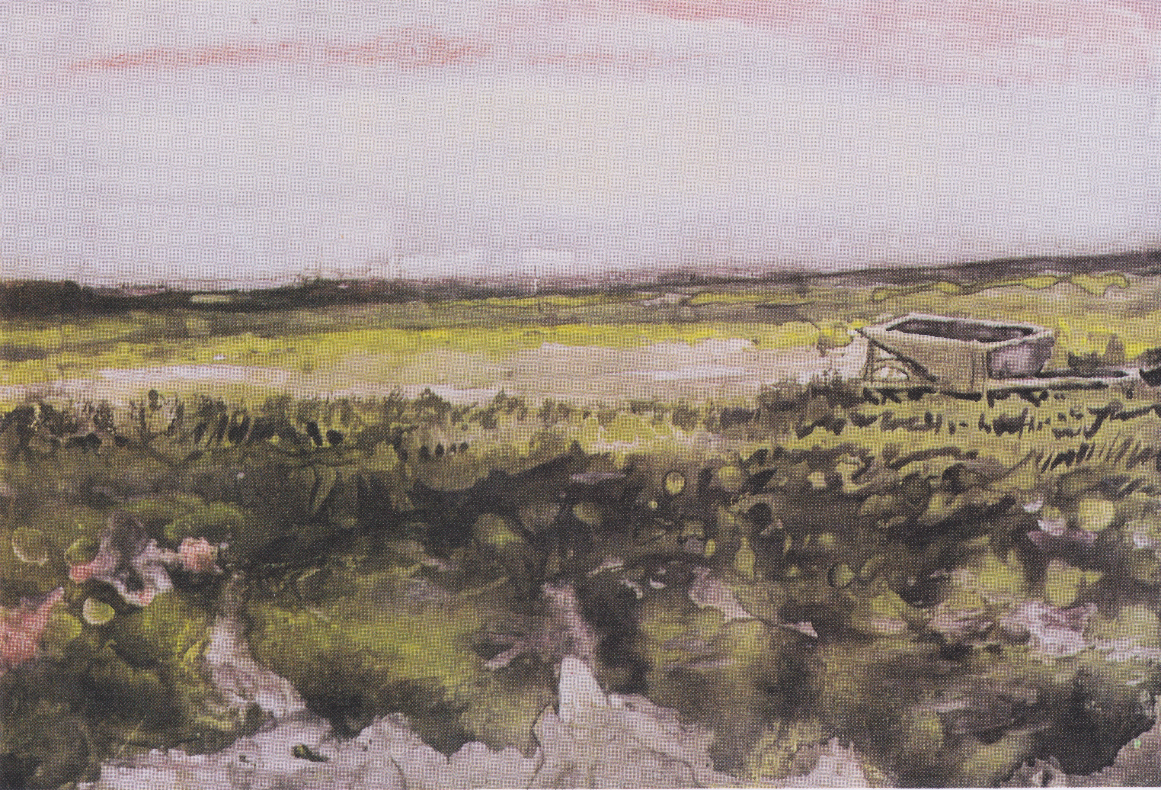 To distance himself from relatives in The Hague who disapproved of his relationship with the prostitute Sien Hoornik, van Gogh moved in November 1883 to the Dutch province of Drenthe. He stayed there for two months and concentrated on depictions of the flat, heather-covered landscape, as seen in this subtle watercolor.[1] ↑ Cleveland Museum of Art